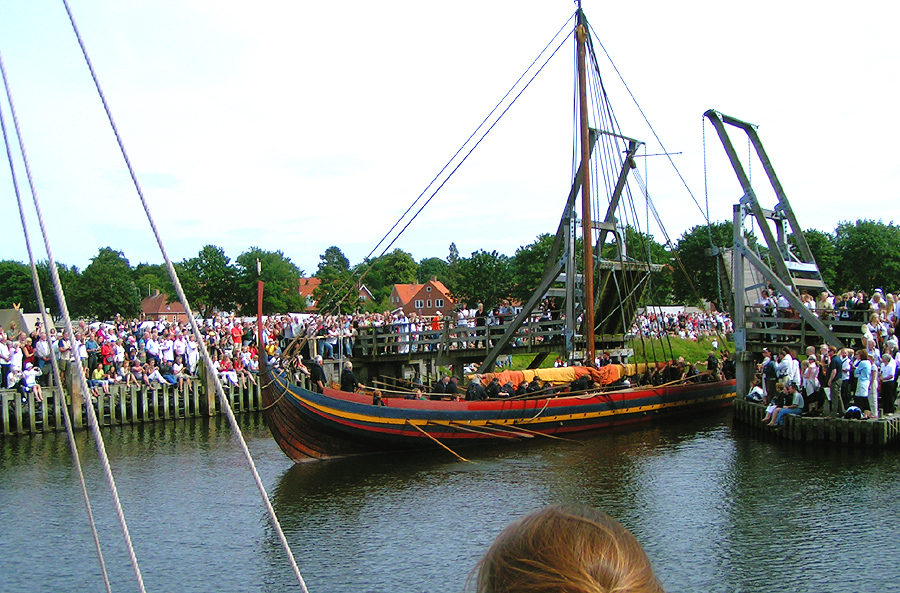 The viking ship The Sea Stallion from Glendalough is leaving the Viking Ship Museum in Roskilde on the 1st of July 2007, bound for a six week long sea-journey across Kattegat and the North Sea to Dublin in Ireland